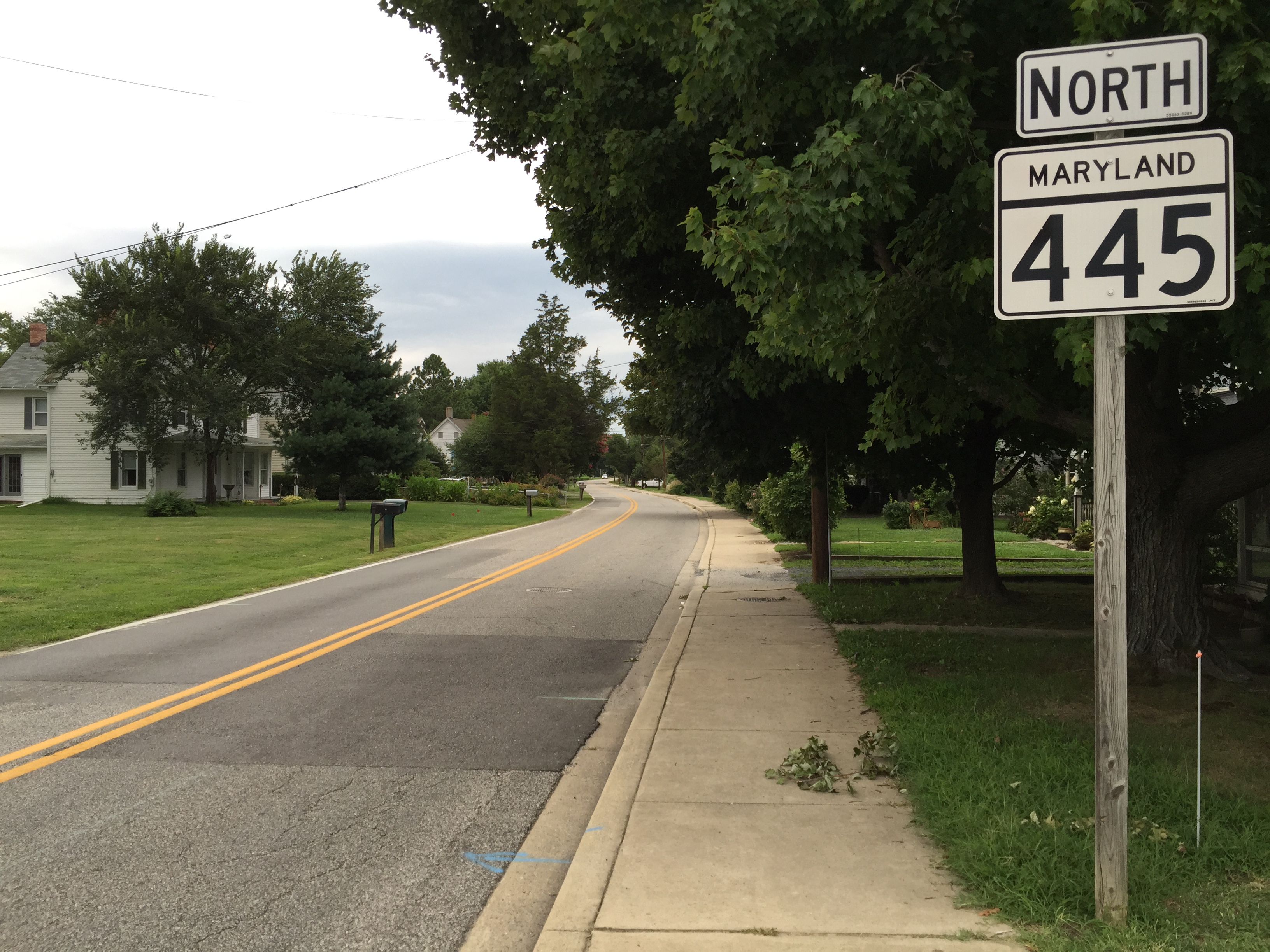 View north along Maryland State Route 445 (Main Street) at Maryland State Route 20 (Rock Hall Avenue) in Rock Hall, Kent County, Maryland